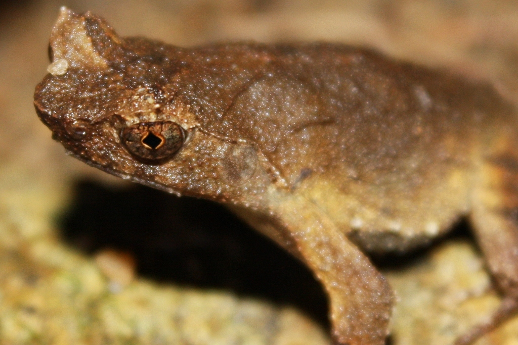 Taken in Pok Fu Lam Country Park.